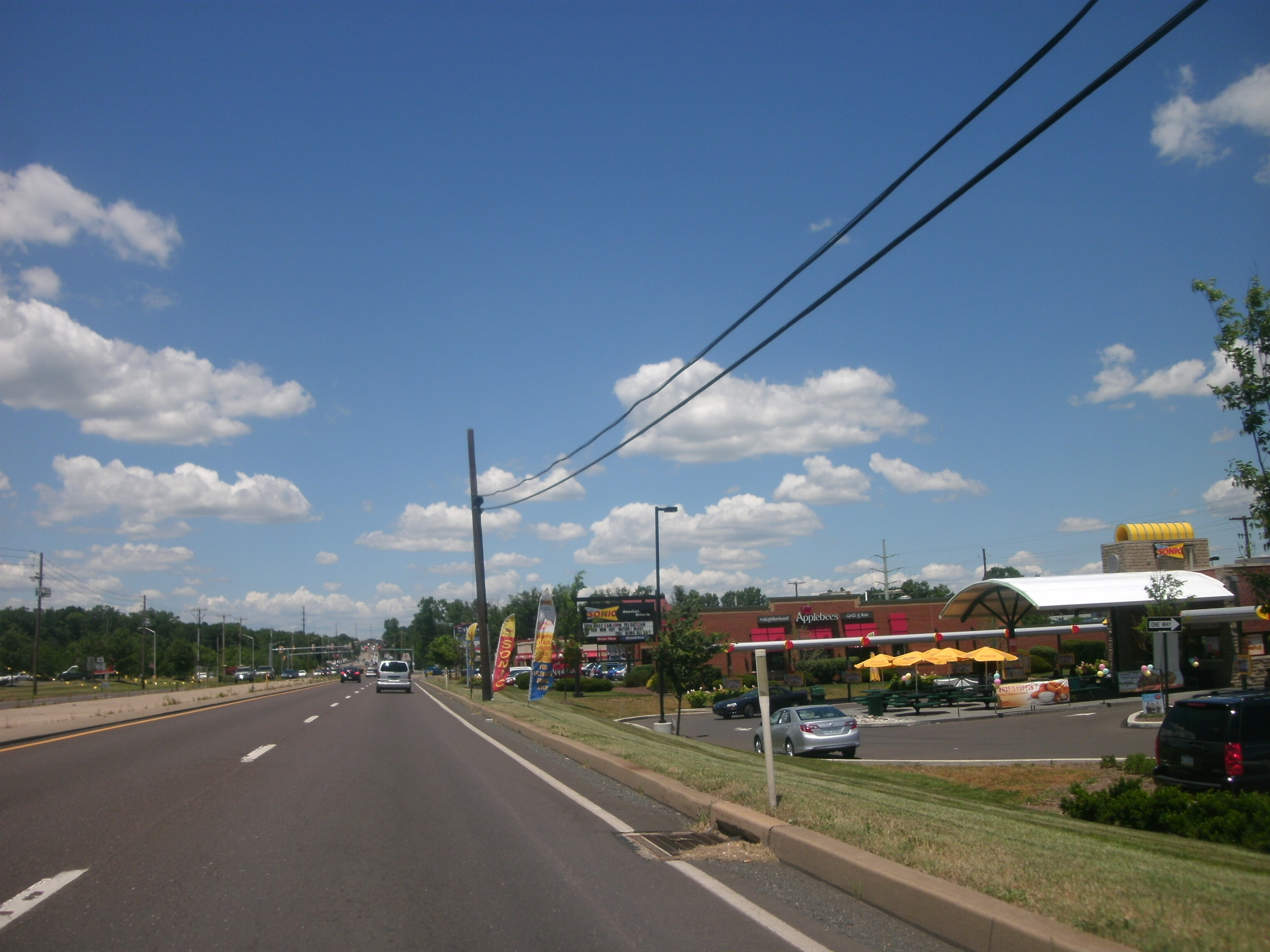 Pennsylvania Route 309 northbound through the borough of Quakertown in front of the Richland Crossings.